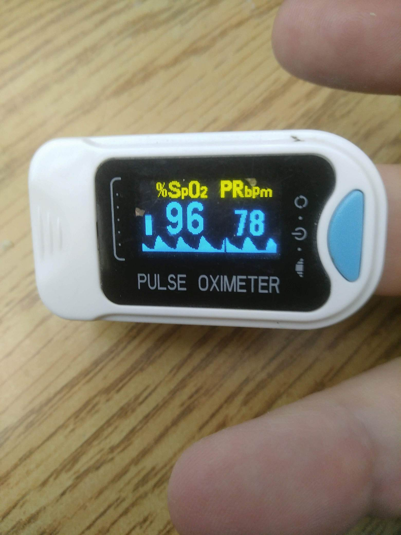 Pulse oximiters measure the O2 concentration and pulse of a person